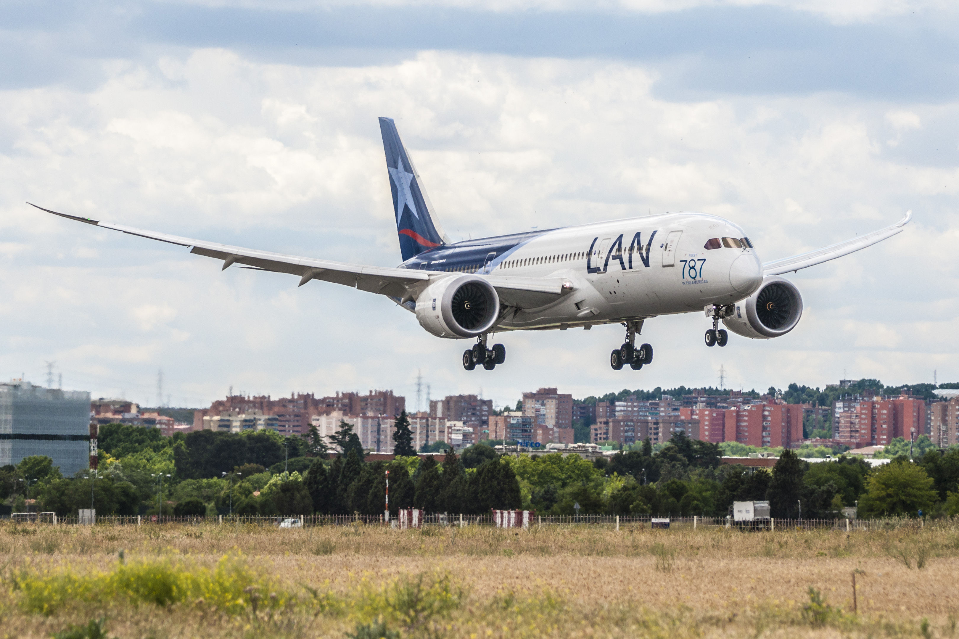 V MAD Spotter Day... Es un avión muy bonito en directo... Es impresionante como flexan los planos durante la toma